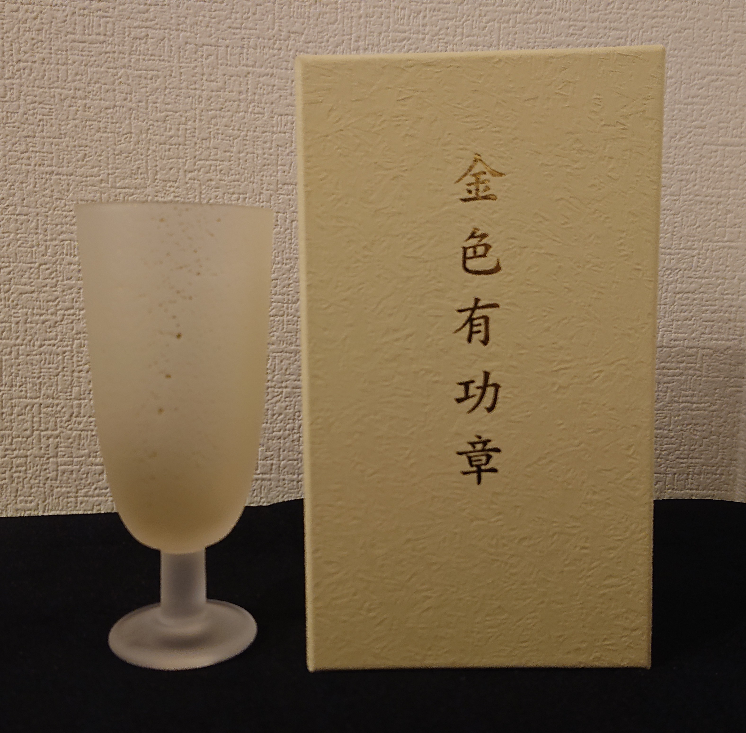 Japanese Red Cross Gold Award for 100 blood donations